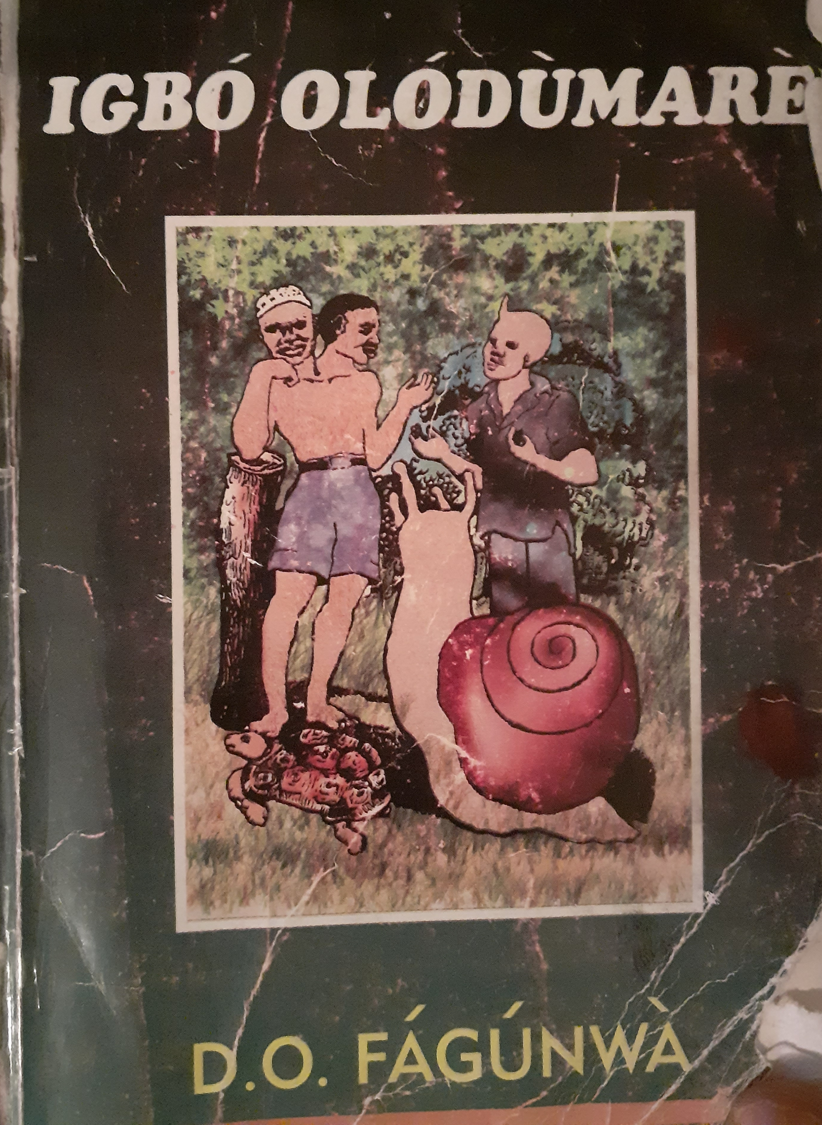 Original cover for the book Igbo Olodumare